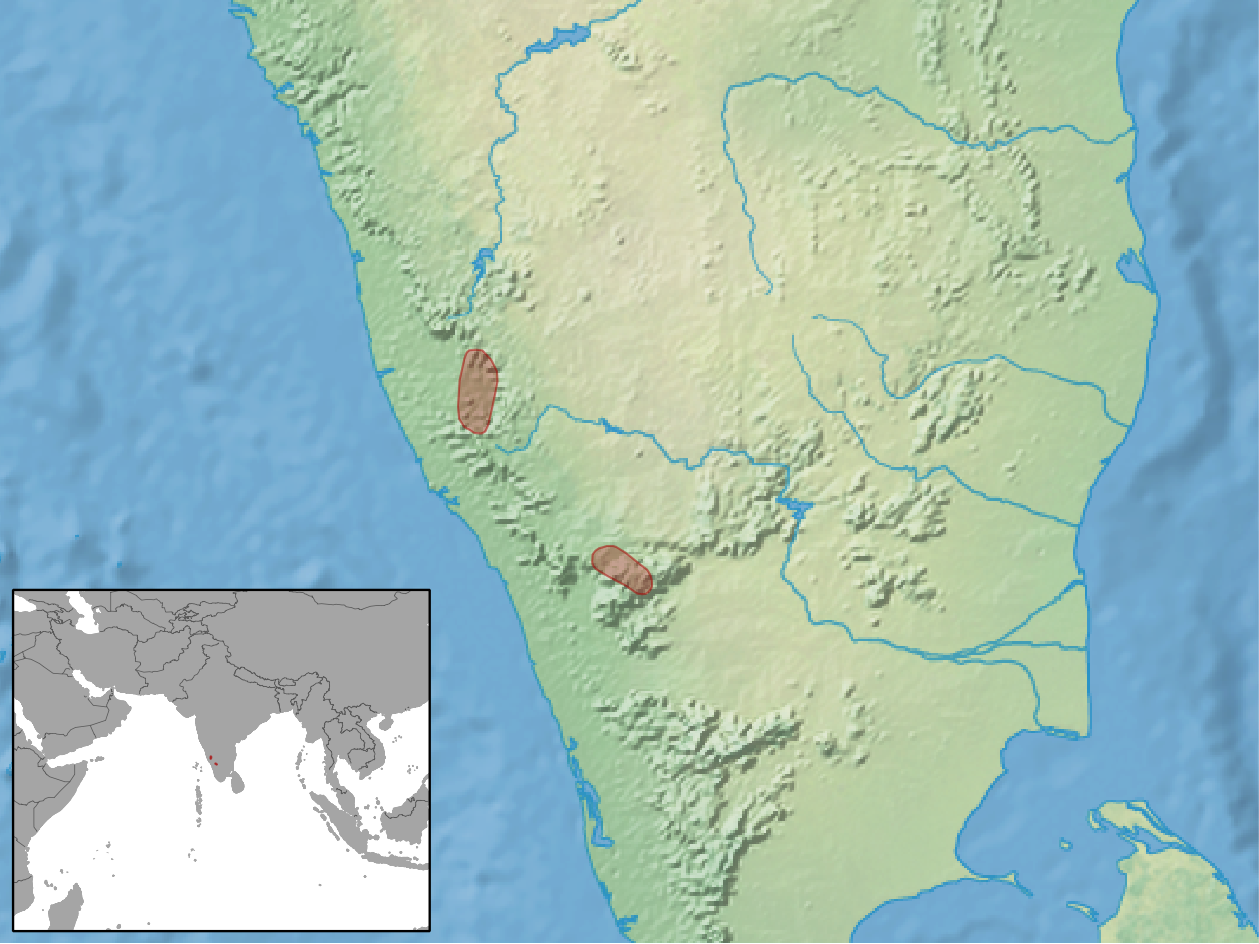 geographic distribution of Vandeleuria nilagirica